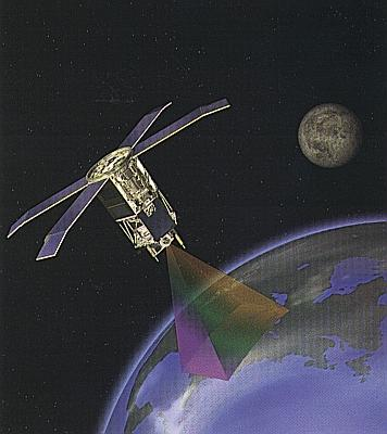 SeaStar satellite orbit.